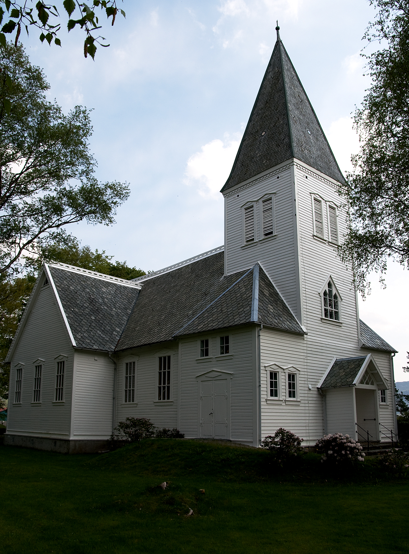 Årdal kyrkje front